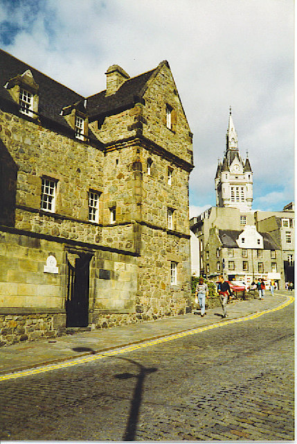 Provost Ross' House, Shiprow. This old roughstone town house was a National Trust property when this photograph was taken. Now it houses the Aberdeen Maritime Museum which now has a modern glass-fronted extension to it. The tower in the right background belongs to the Town House. Shiprow gets its name as it connected the centre of mediaeval Aberdeen to its harbour.